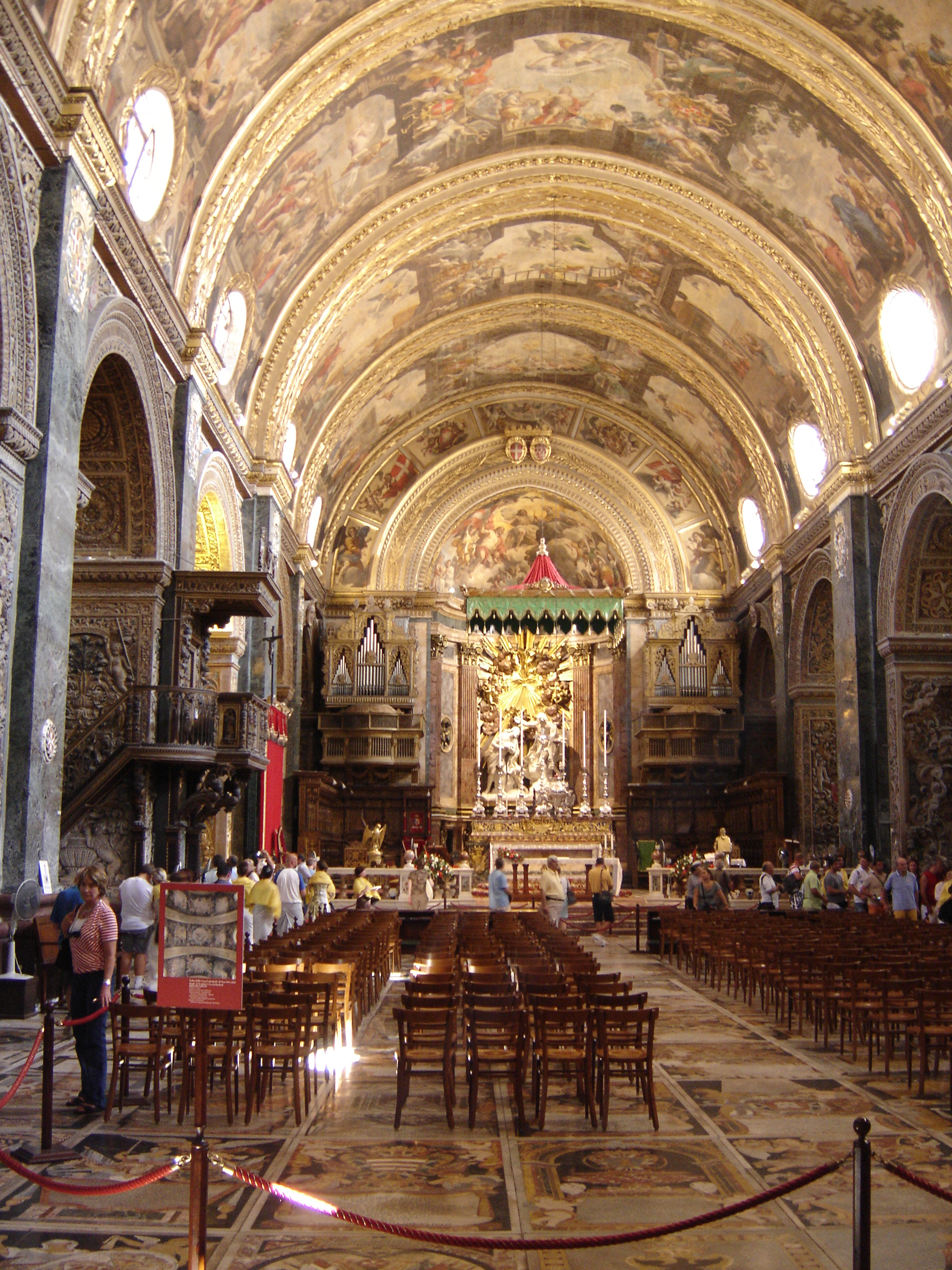 Malta, Valletta, St.-John-Co-Cathedral photographer: Heiko Gorski (Moonshadow) date: september 2006 Source: uploaded by the photographer